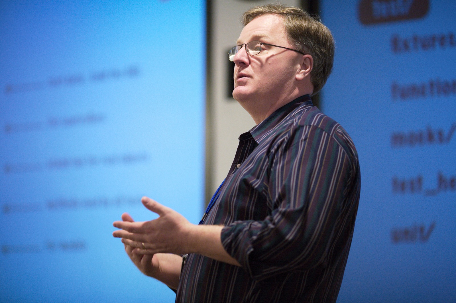 Dave Thomas speaking at the Pragmatic Rails Studio in Pasadena California held January 26-28 2006. Author : James Duncan Davidson (x180 on flickr).